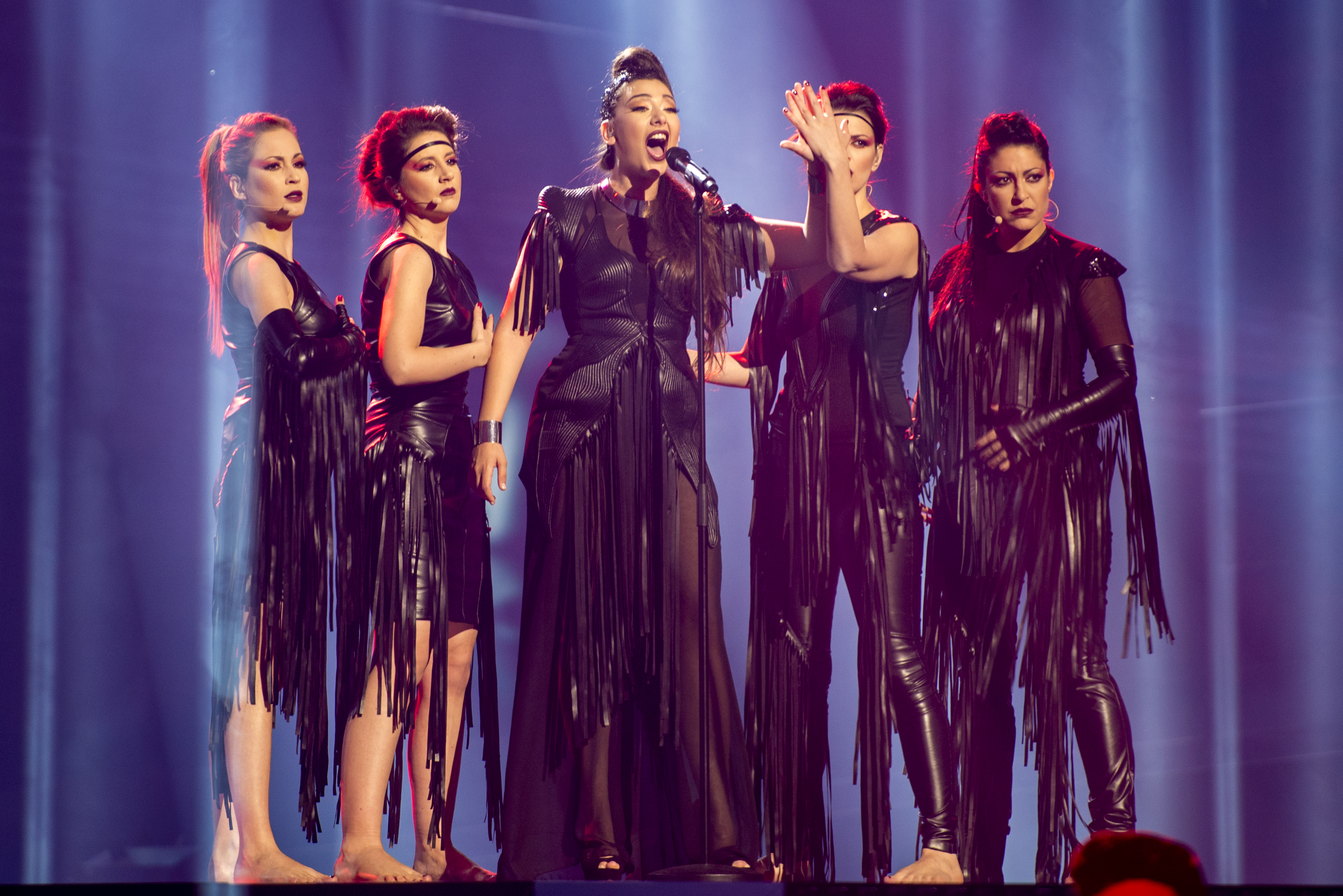 Sanja Vučić ZAA representing Serbia with the song "Goodbye" during a rehearsal before the second semi final of the Eurovision Song Contest 2016 in Stockholm. (Help translate this text)